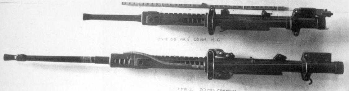 comparsion of japanese Type 99-1 (above) and Type 99-2 (below) cannons